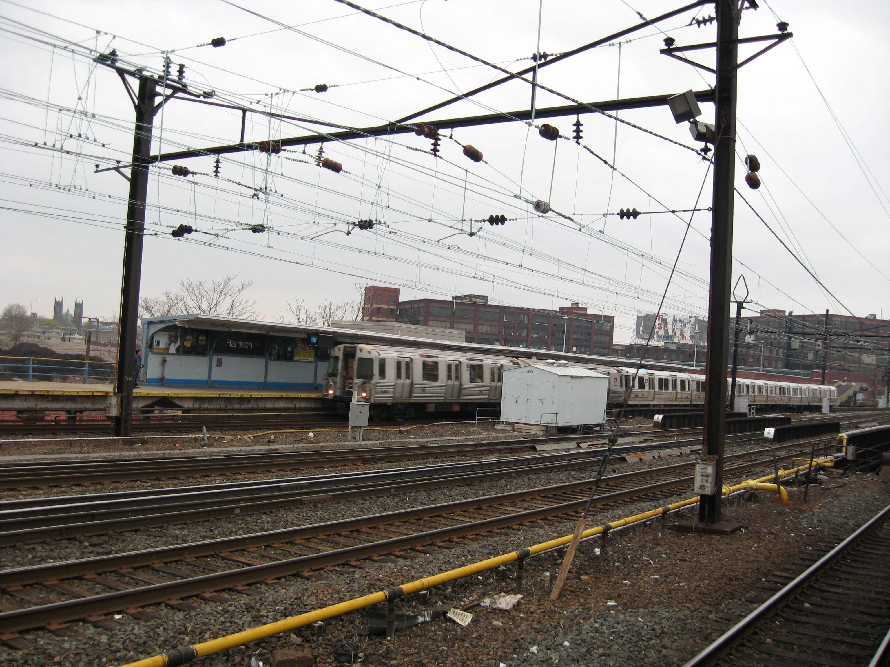 Looking north at an arriving westbound train at Harrison PATH station on a cloudy spring evening.